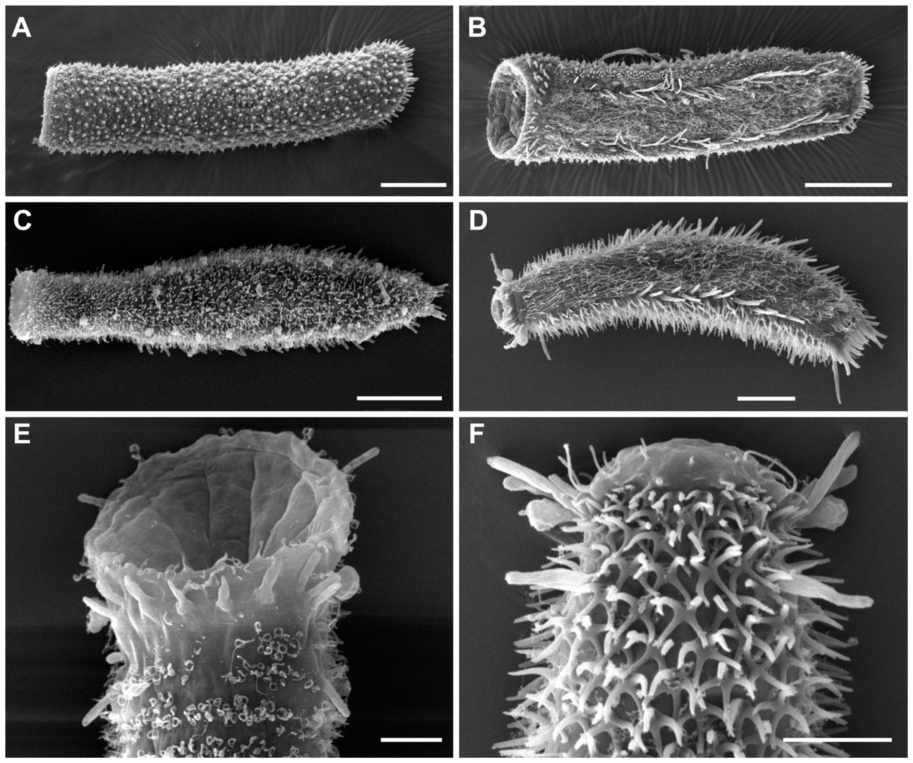 SEM photomicrographs showing the general body shape and aspects of the cuticular covering of representatives of the genera Oregodasys, Tetranchyroderma and Thaumastoderma. A, B, Oregodasys ocellatus dorsal and ventral view respectively; C, E Tetranchyroderma cf. antennatum, C, habitus dorsal view, E, close-up of the anterior end in a ventral view showing the ample mouth, adhesive tubes of the anterior series and cephalic sensory organ; D, F Thaumastoderma ramuliferum, D, habitus in ventral view; F, close-up of the anterior end in a dorsal view showing the cuticular armature made up of tetrancres, cephalic sensory organs and the cirrata tubes. Scale bars A–C = 50 µm, D–F = 20 µm.